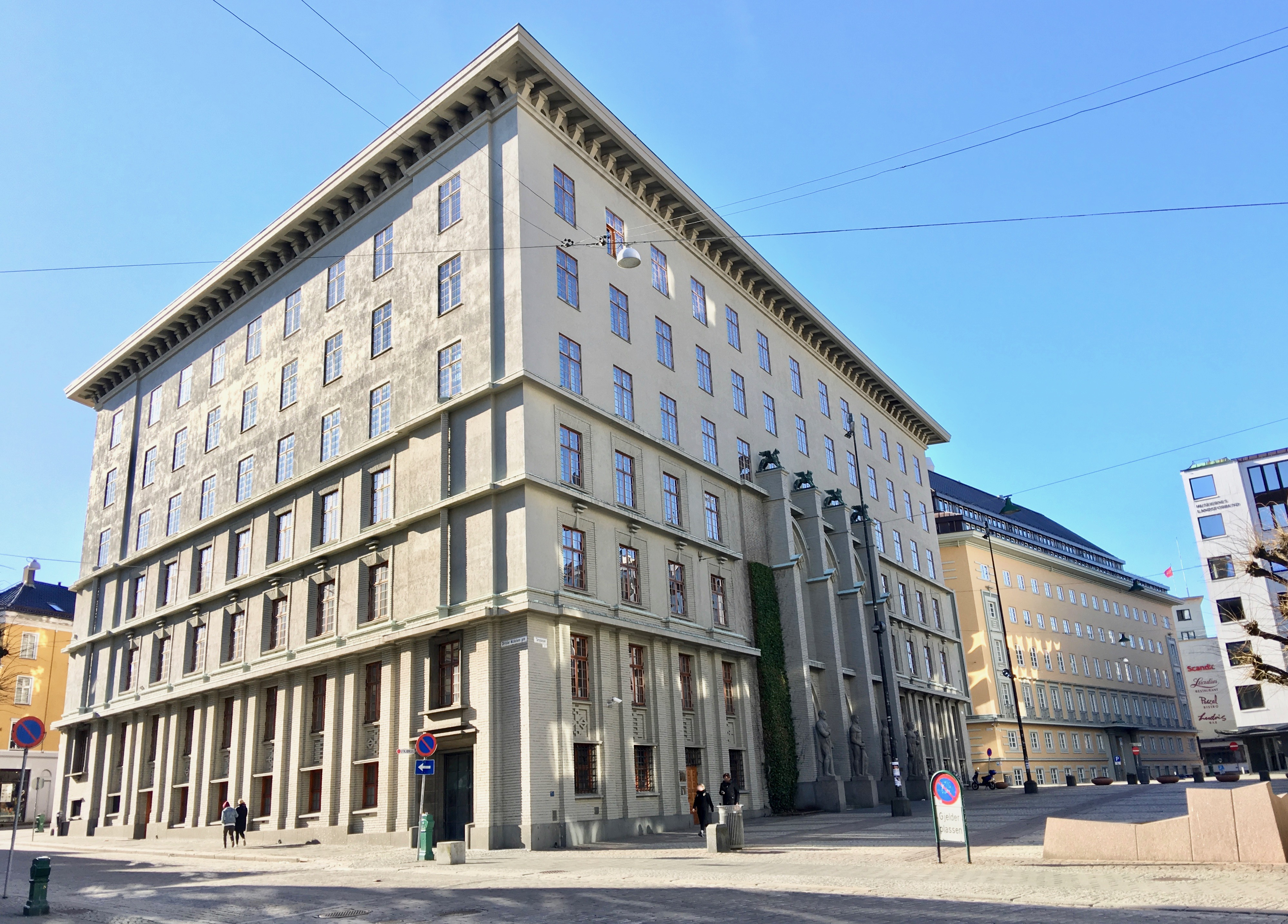 Bergen Tinghus (Tingrett) courthouse at Tårnplassen and in Christian Michelsens gate in central Bergen, Norway. 2018-03-19.